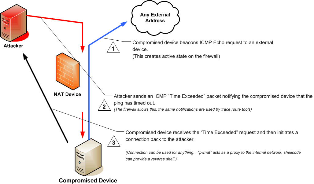 This is a simple diagram of how ICMP Hole Punching is used by an attacker to maintain access to a network.